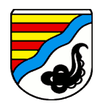 Coat of Arms of Laudenbach